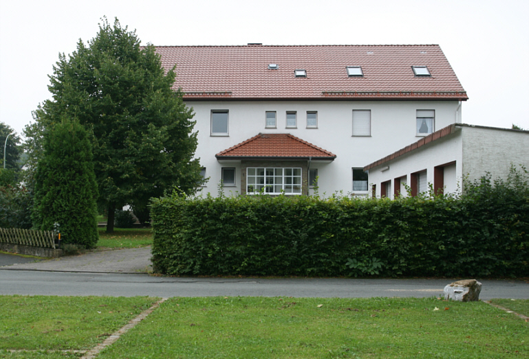 Former gatehouse of Niederhagen concentration camp, now residential buildingEsperanto: Eksa portaldomo de Niederhagen koncentrejo, nun loĝdomo